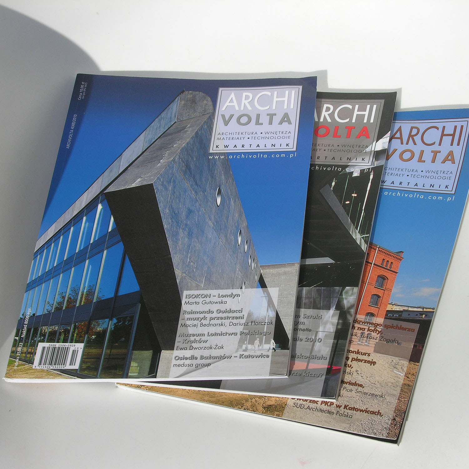 Archivolta Architectural Magazine